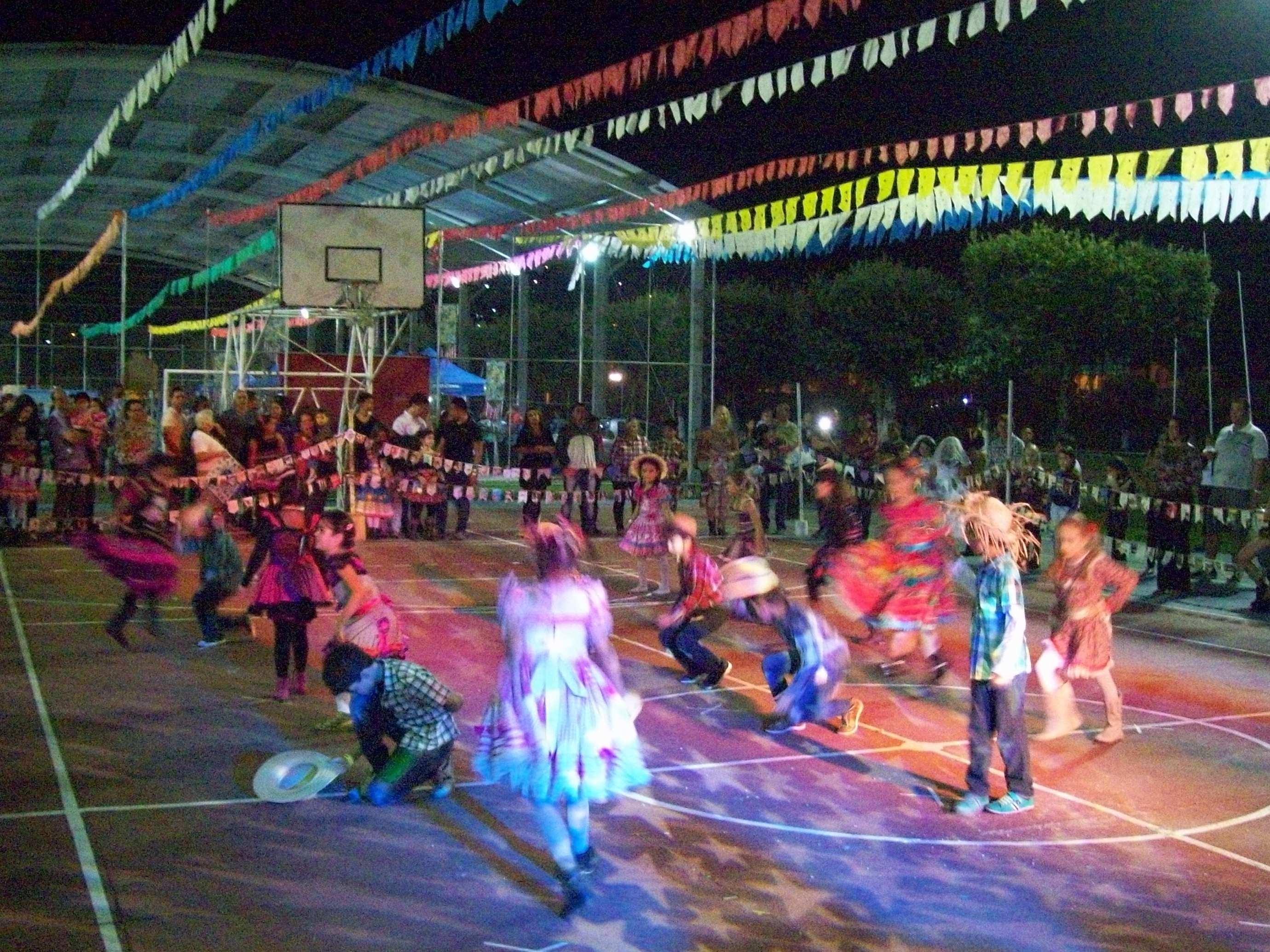 Dance of children of elementary school 1 in the june festival of the Padre de Man college (Forrobodó), in Coronel Fabriciano, Minas Gerais, Brazil.